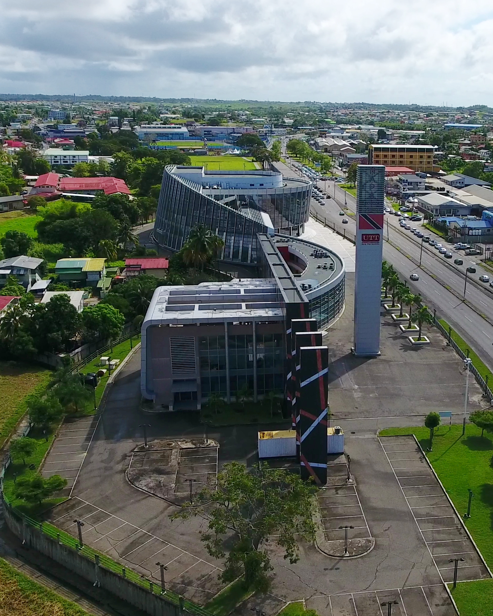 Foreground: University of Trinidad and Tobago (UTT) San Fernando campus. Background: Southern Academy for the Performing Arts (SAPA). San Fernando, Trinidad and Tobago. Note how the building ensemble forms an actual clef. Photo taken as part of the Southern Trinidad Aerial Photo Project, a small project sponsored by WMDE. Drone used: DJI Phantom 4. Snapshot taken from video footage via VLC, then cropped with IrfanView.